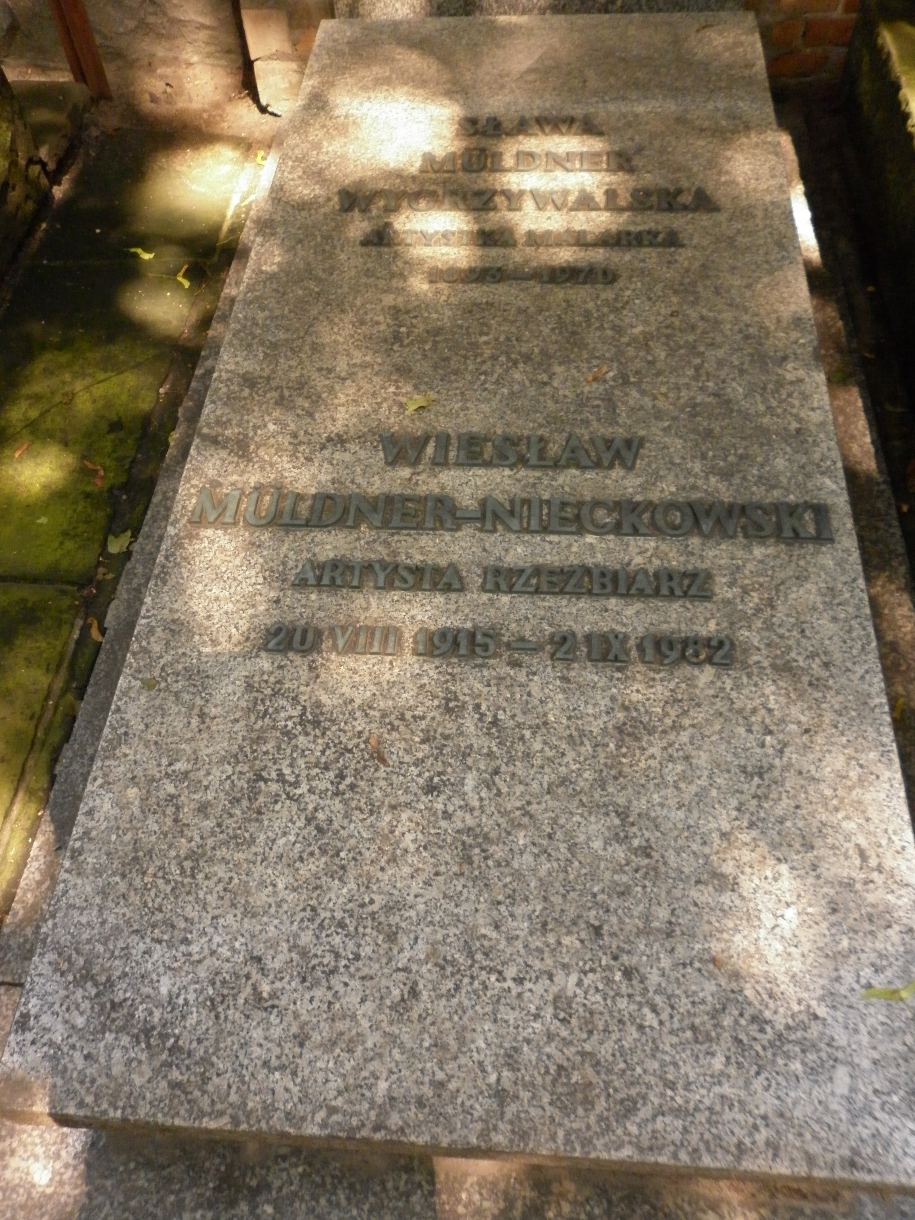 Wiesław_Muldner-_Nieckowski tomb in Old Powązki